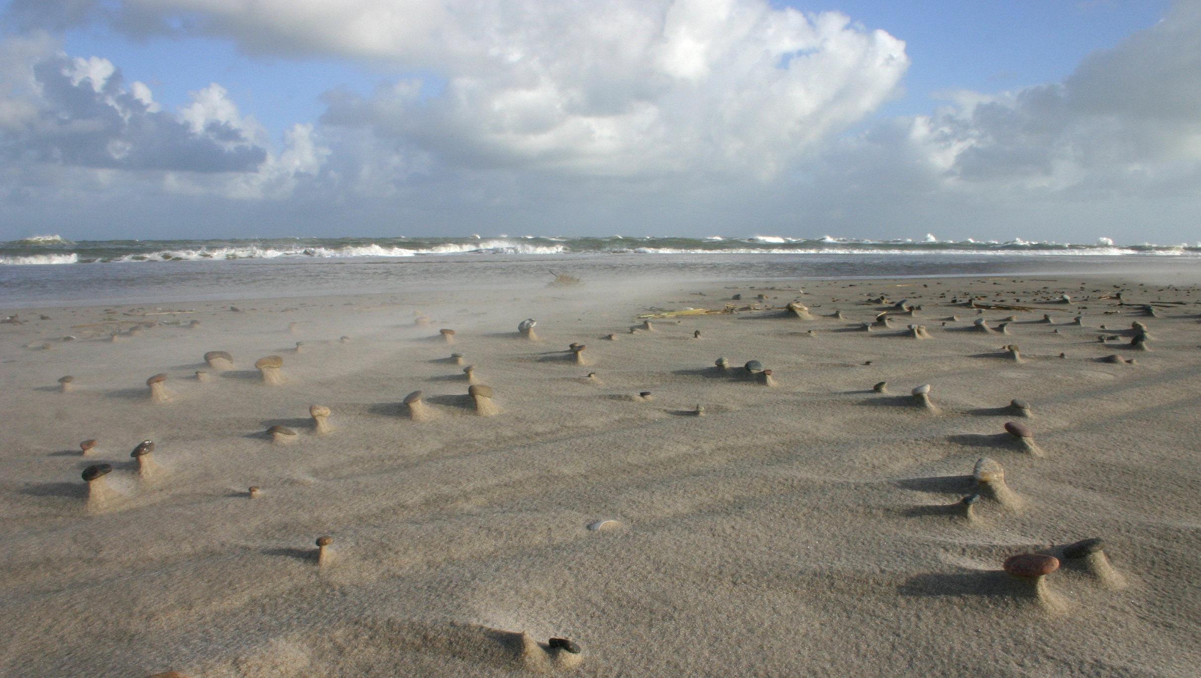 The picture is taken at Skagen peninsula, the most northern part of Denmark.It was taken during a storm with windspeeds at 20-26 meters pr. second. See Beaufort scale for comparision with other units. Flying sand and erosion of the landscape is clearly visible.External link with weather data for october 2006.[1]